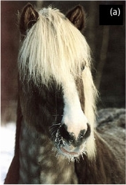 Phenotypic description of Silver colored horses. (Horse coat colors: Silver dapple gene) A. A Black Silver Icelandic horse. A genetically black horse that exhibits the typical silver phenotype with a dark body with dapples and a shiny white mane and tail. Photo: Tim Kvick.